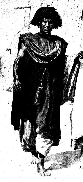 Kunta man near Timbuktu